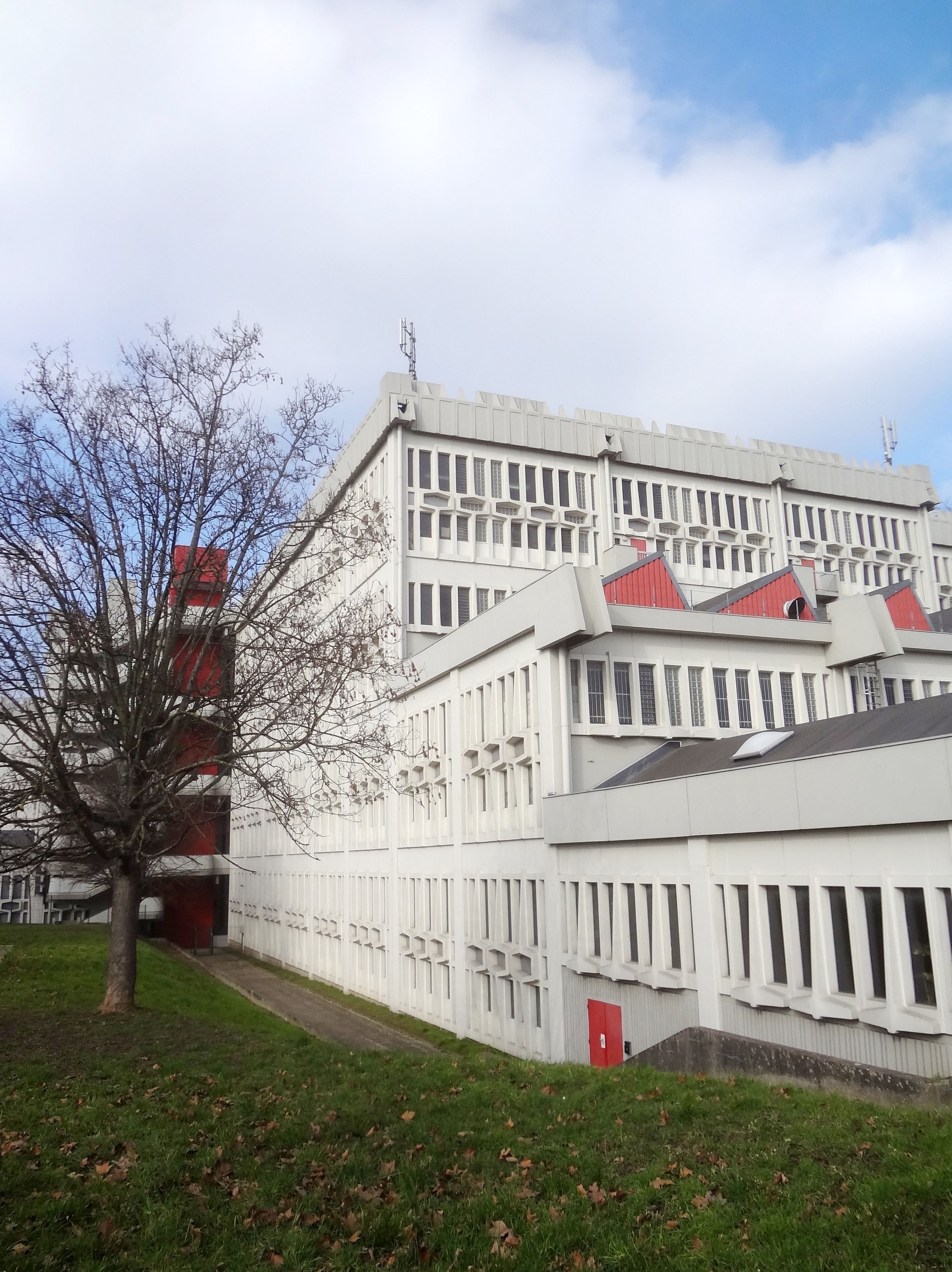 The Mozinor industrial building (contraction of "Montreuil North Industrial Zone" or « Montreuil Zone Industrielle Nord » in French) is a vertical plant designed and built in the early 1970s by architects Claude Le Goas and J.-P. Bertrand in Montreuil in the department of Seine -Saint-Denis in Ile-de-France.